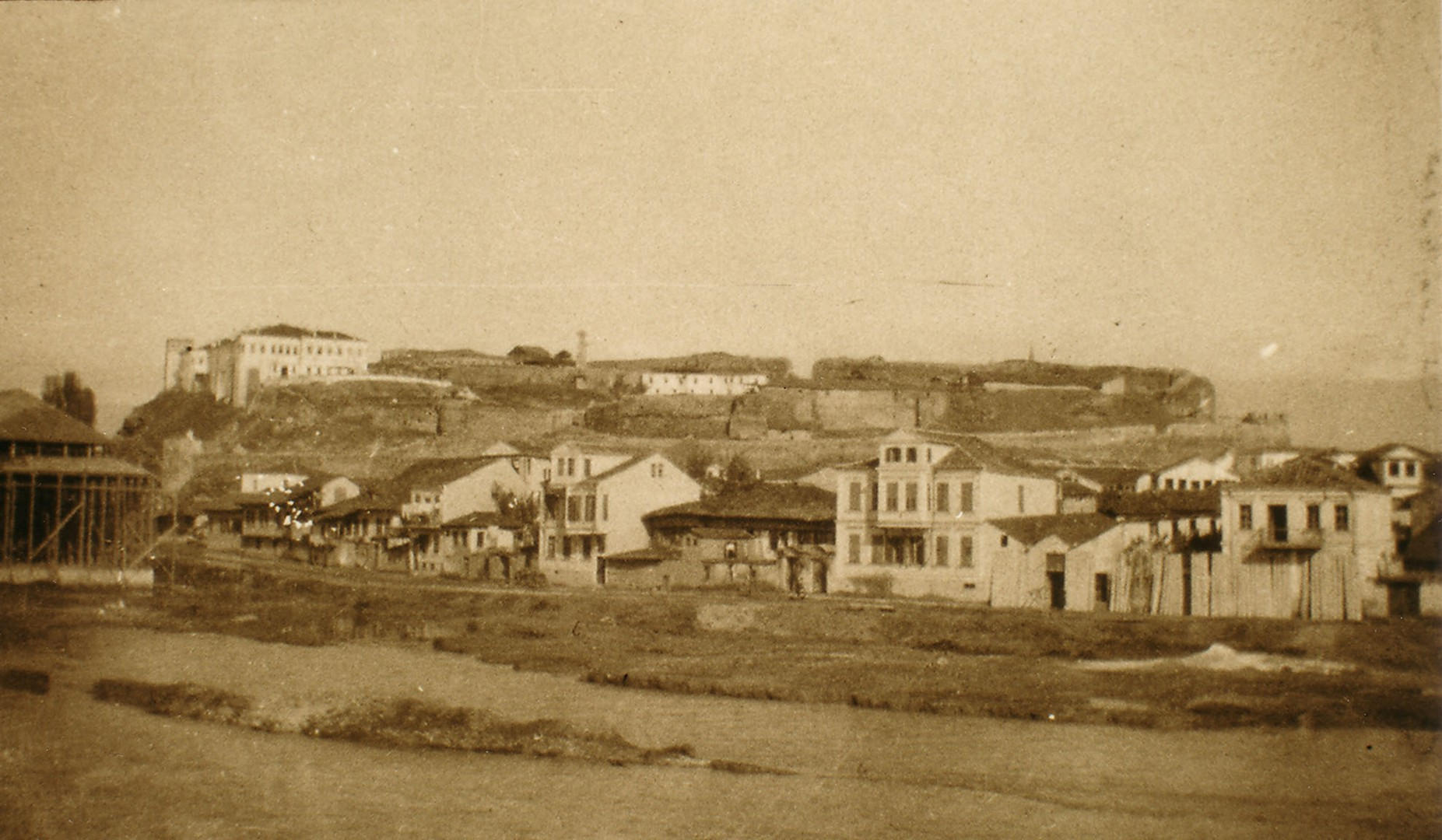 Skopje, 1903 (Photo Franz Baron Nopcsa).